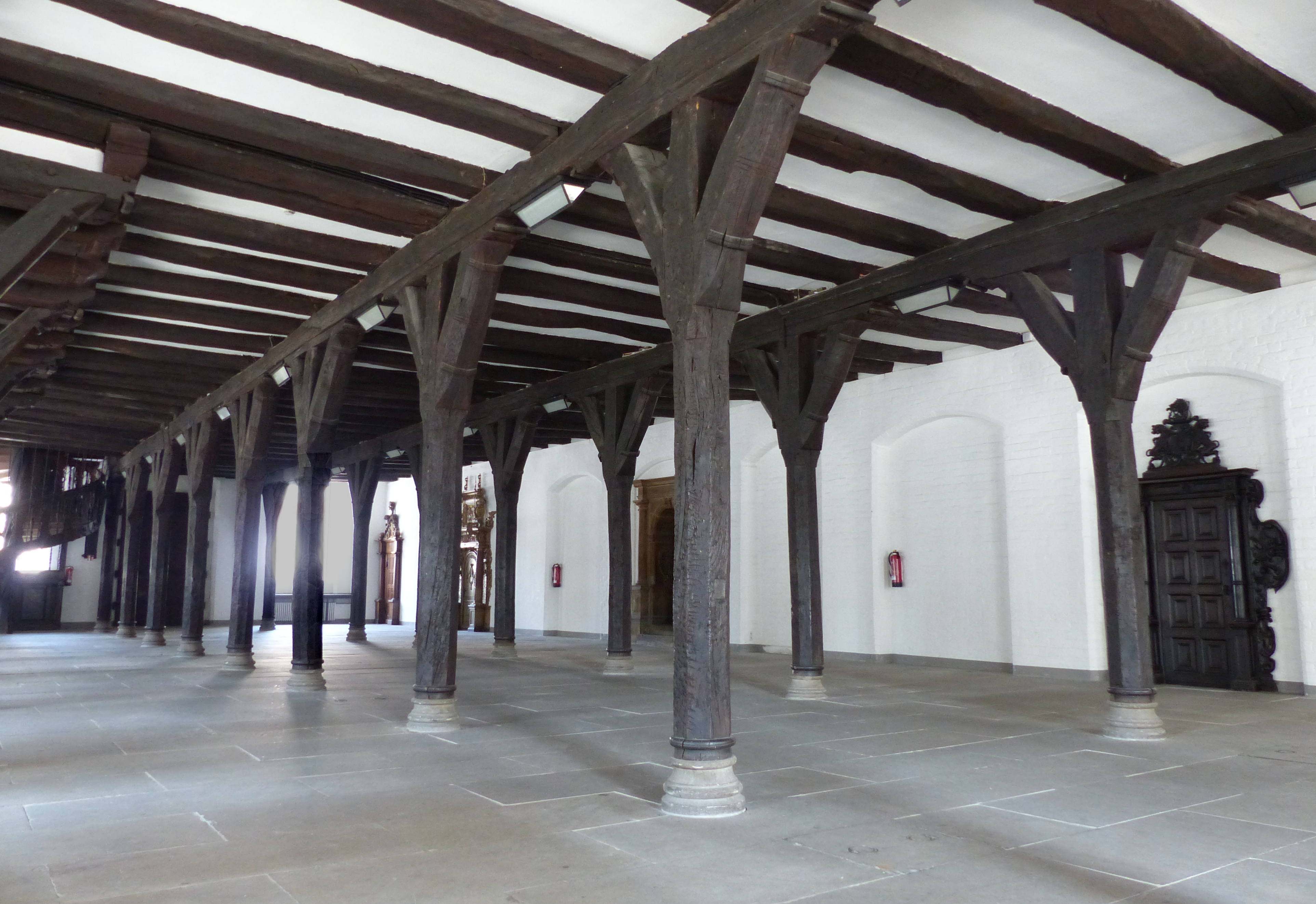 Lower hall of Bremen town hall northward without an event